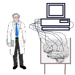 Brain in a Vat.gif